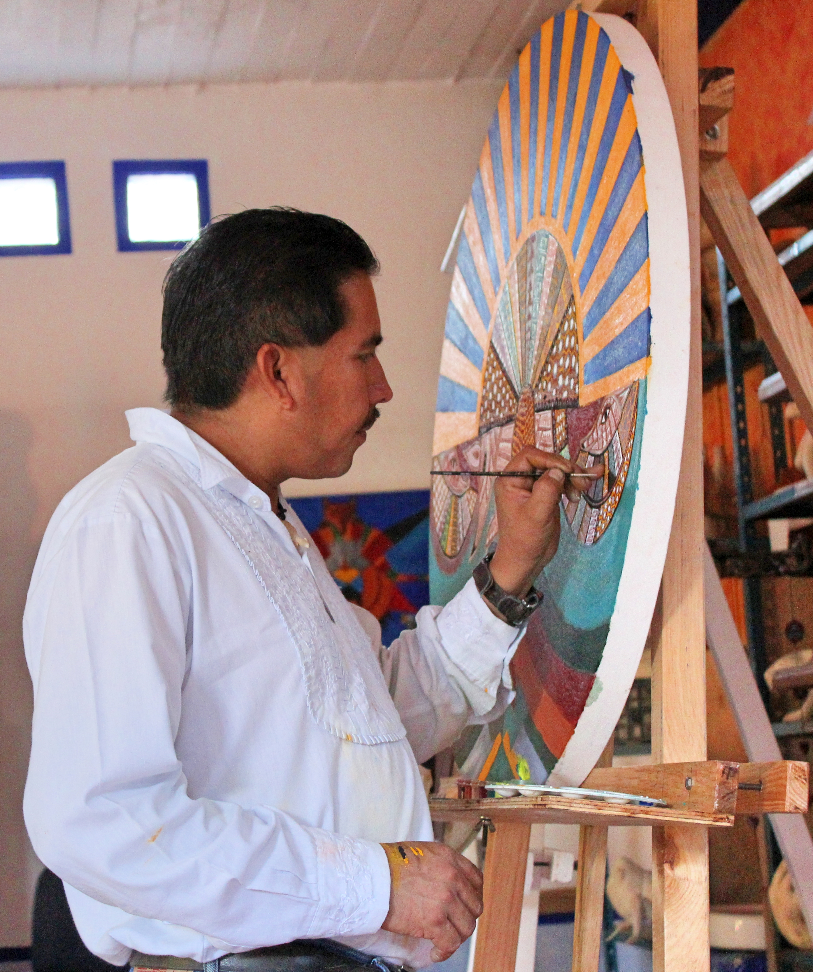 Jacobo Angeles painting